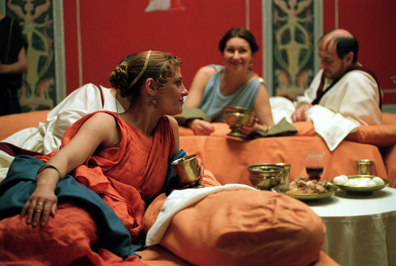 Roman banquet detail (audiovisual)